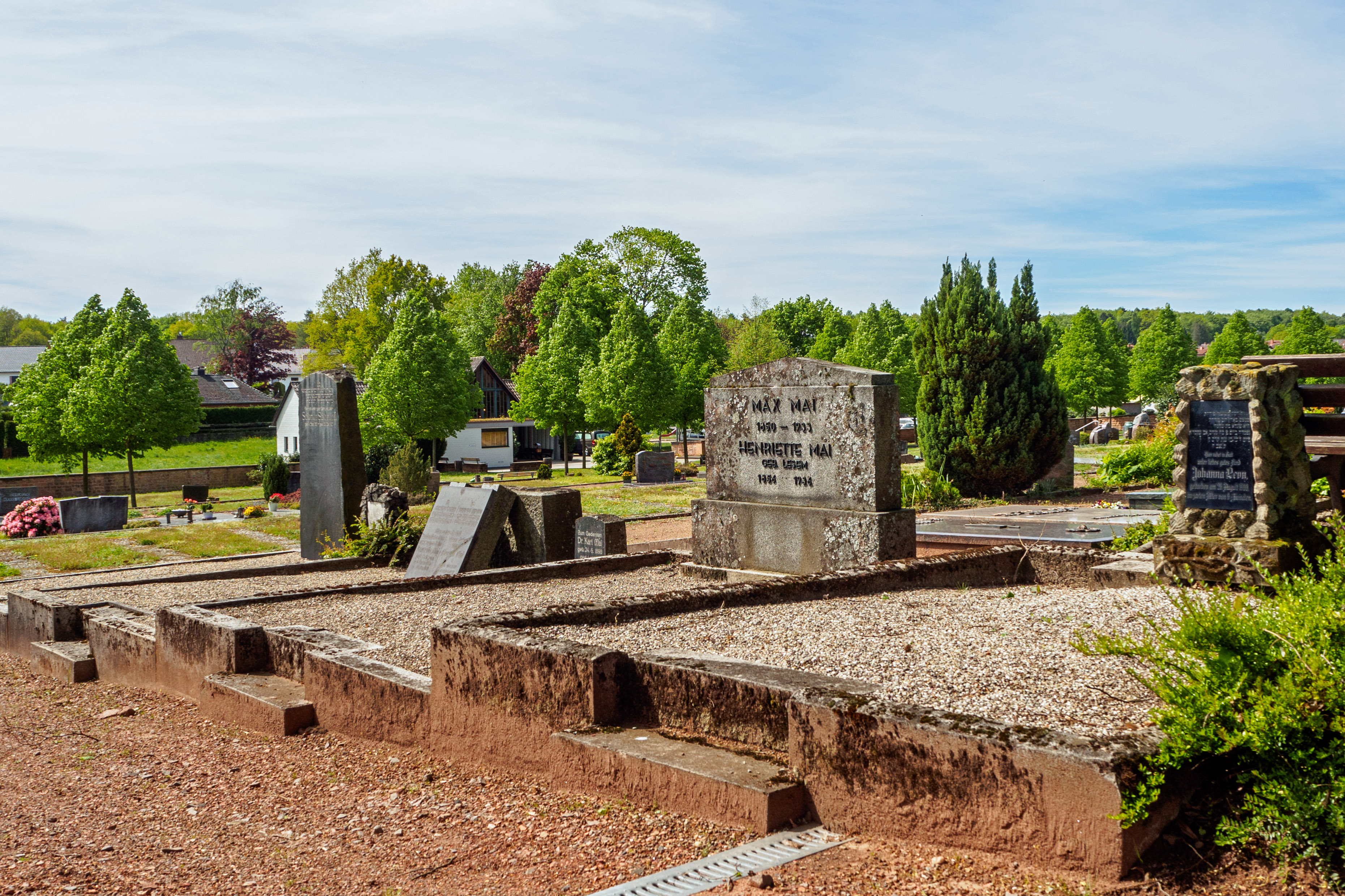 Jewish cemetery in Waldmohr